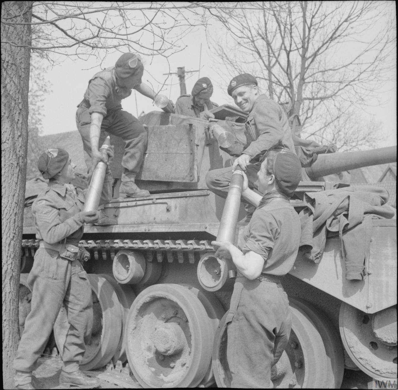 The crew of an 11th Armoured Division Comet tank load ammunition for the 77 mm HV gun into their vehicle.